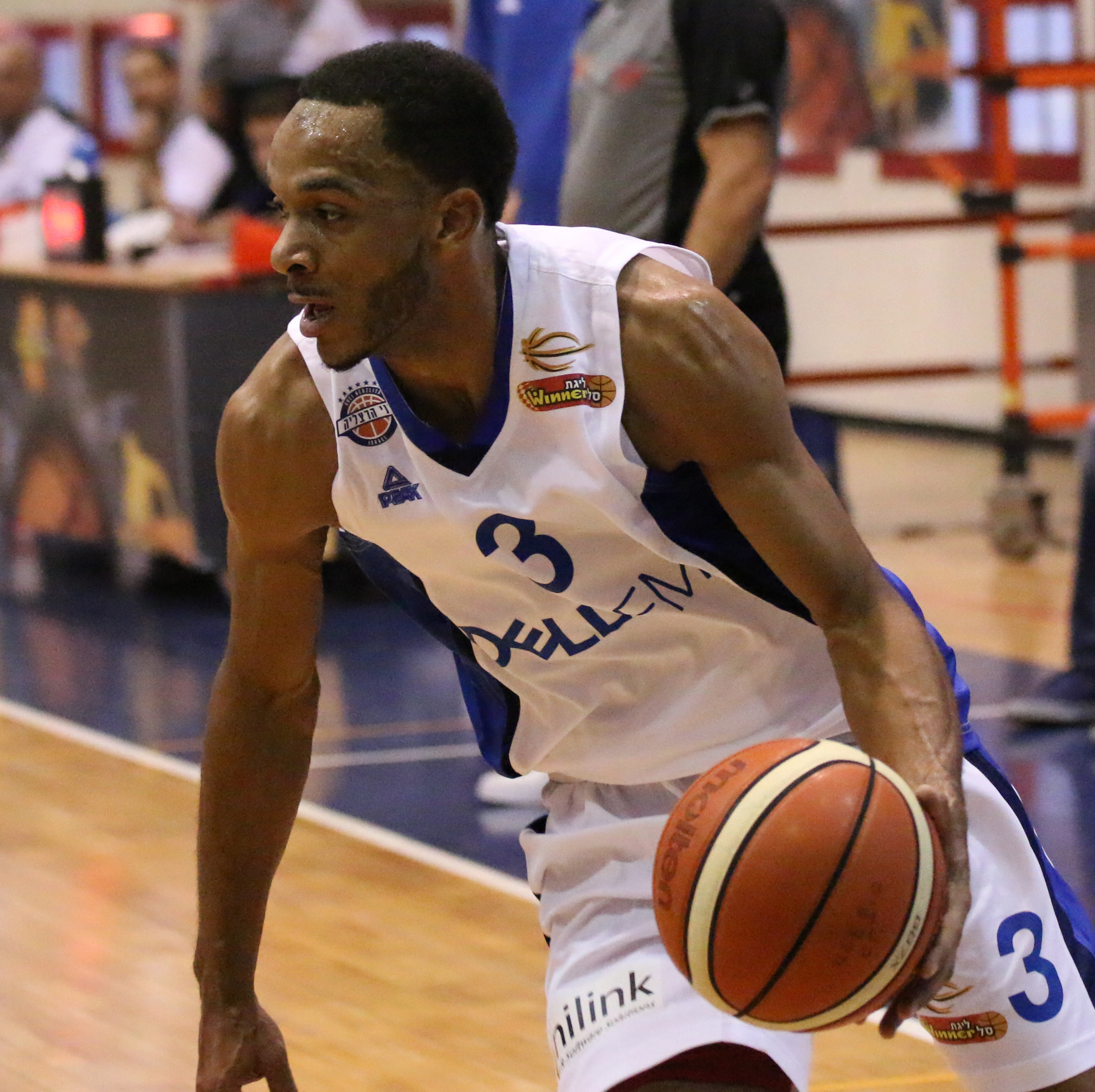 Tom Maayan